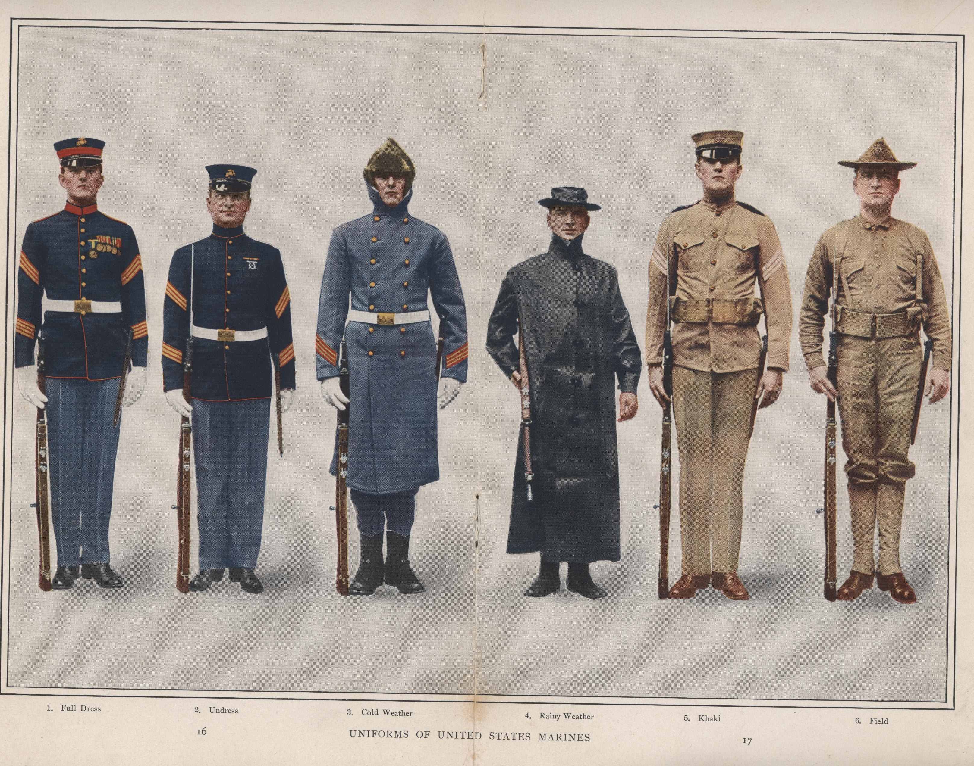 Color plate of Marine Corps uniforms, 1912. Shown are the full dress, undress, cold weather, rainy weather, khaki and field. From the Edward Mooney Collection (COLL/132) at the Marine Corps Archives and Special Collections OFFICIAL USMC PHOTOGRAPH